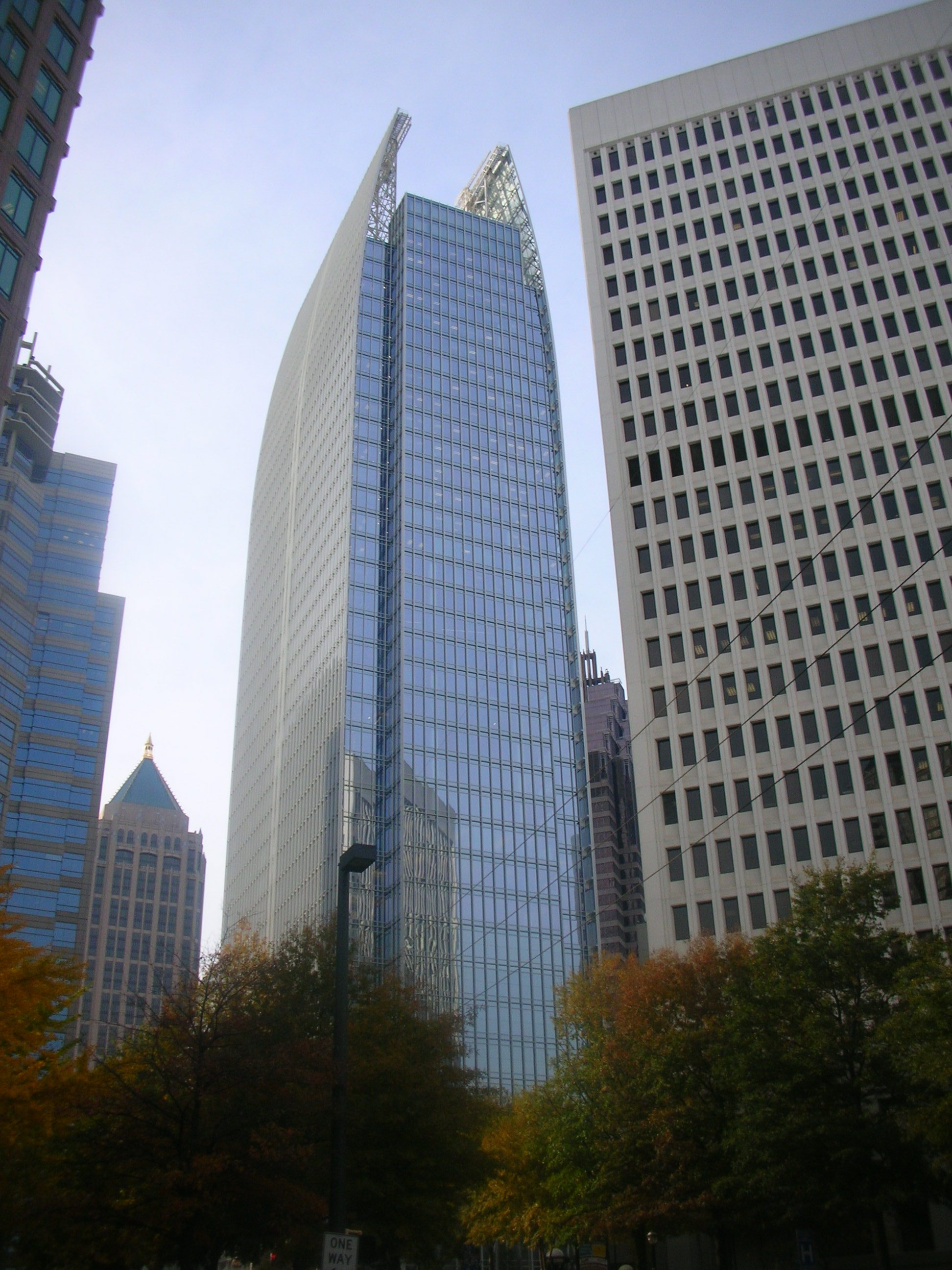 Category:Images of Atlanta, Georgia